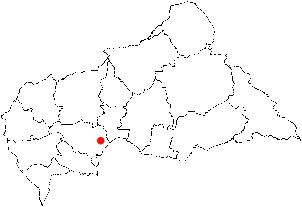 Damara, Central African Republic Location Map; created with the GIMP. Made by User:Acntx.